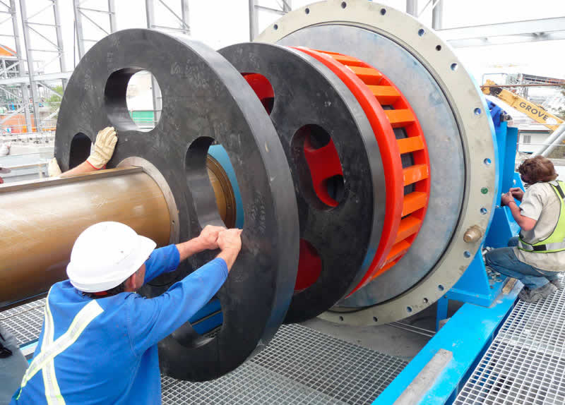 Slotted IsaMill disks being fitted to the shaft that runs through the center of the IsaMill chamber. The orange rubber against the end of the IsaMill is the product separator.